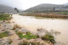 Heavy rain in winter causes floods at the Ateret vicinity